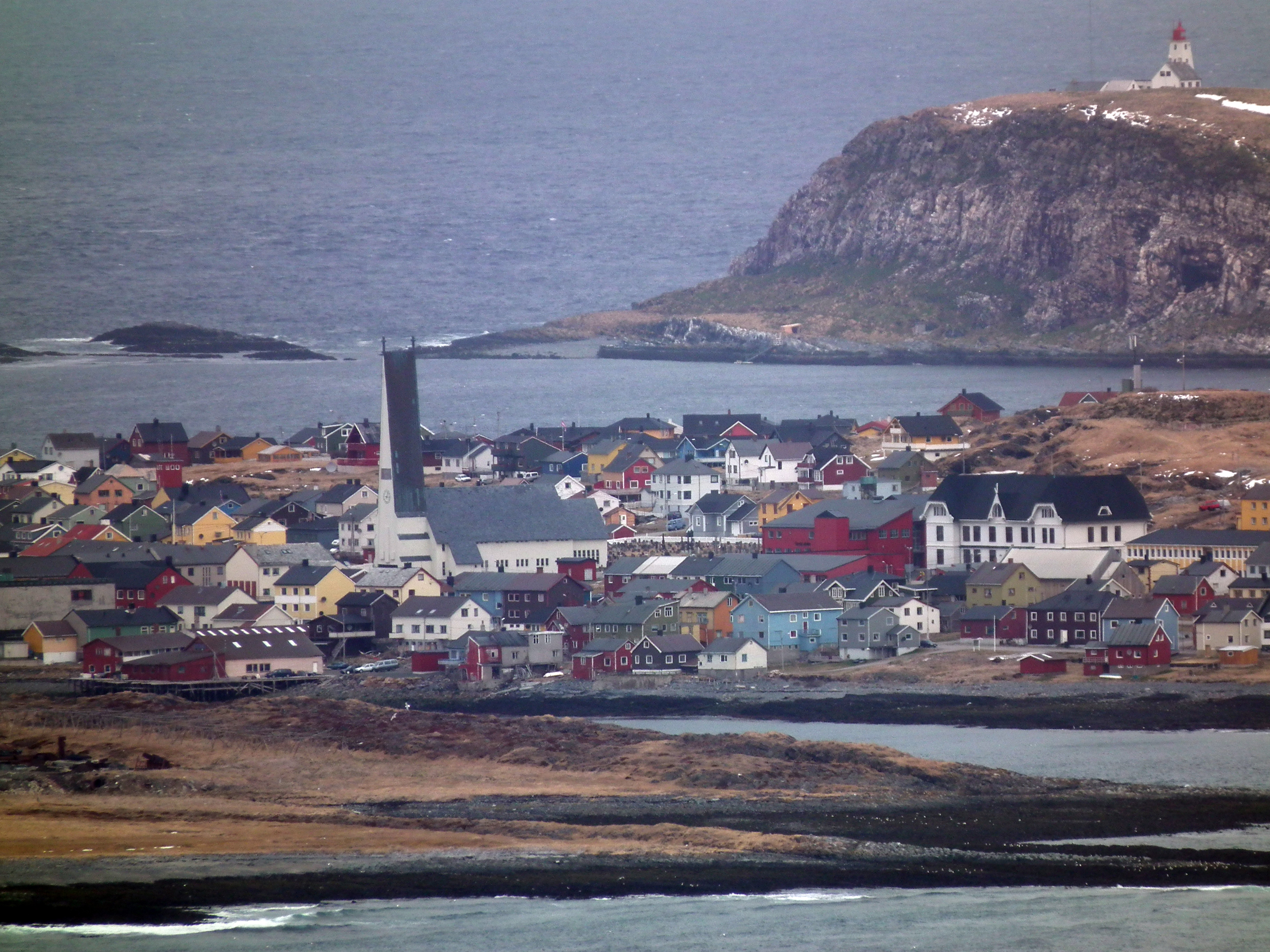 Vardø, the town which is furthest to the east in Norway